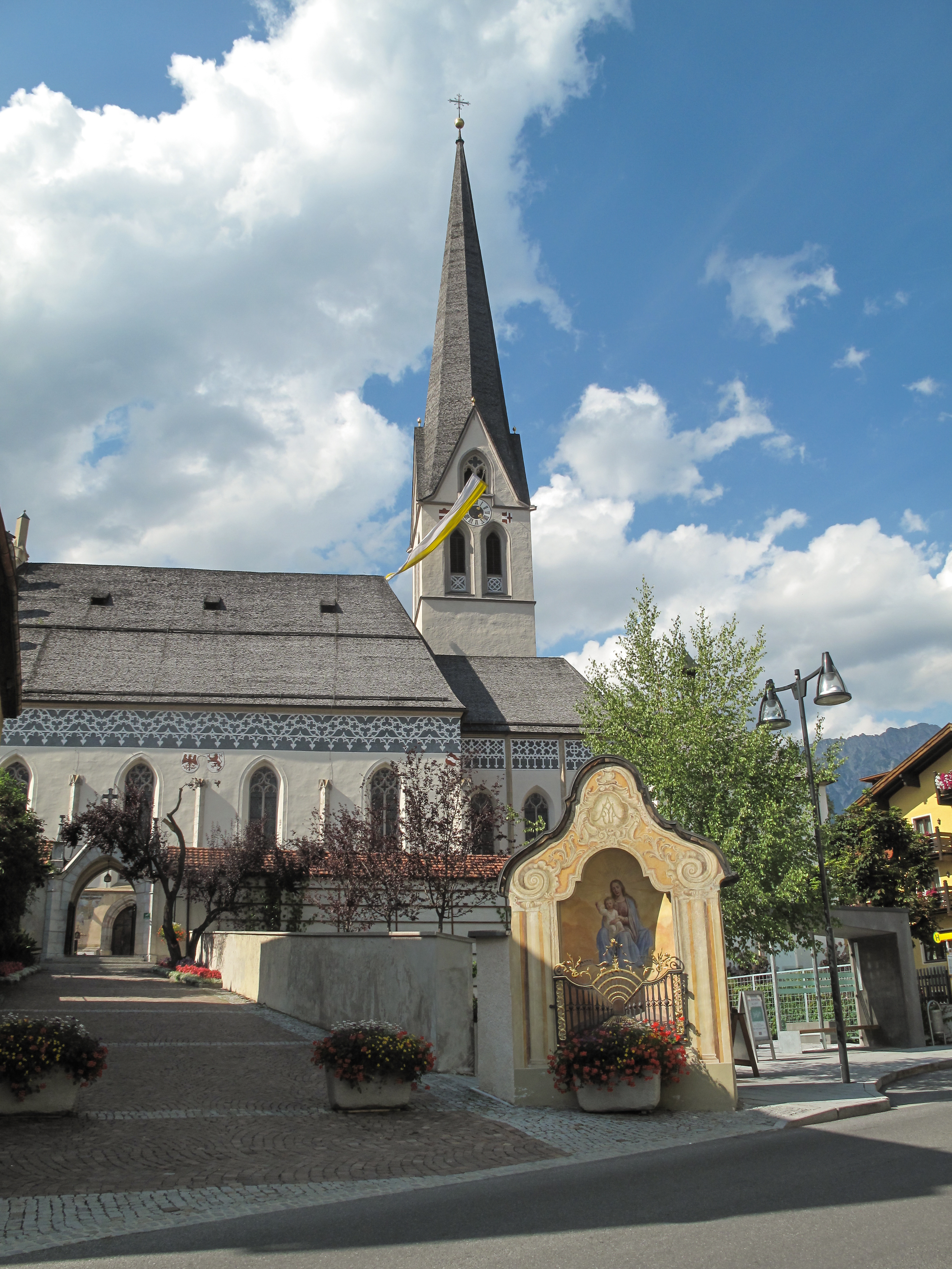 Imst, church: Maria Himmelfahrtkirche